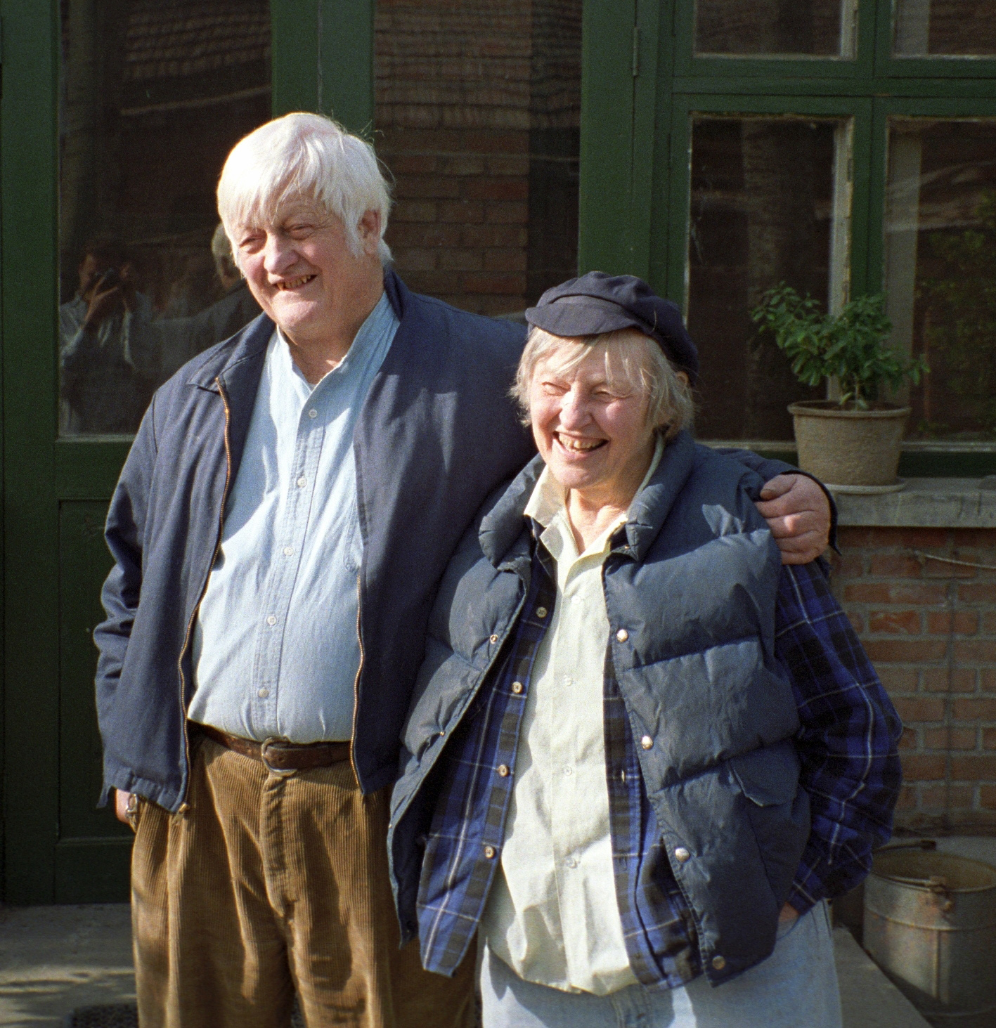 Bill Hinton and Joan Hinton at Joan's farm outside Beijing, China (April 3, 1993)